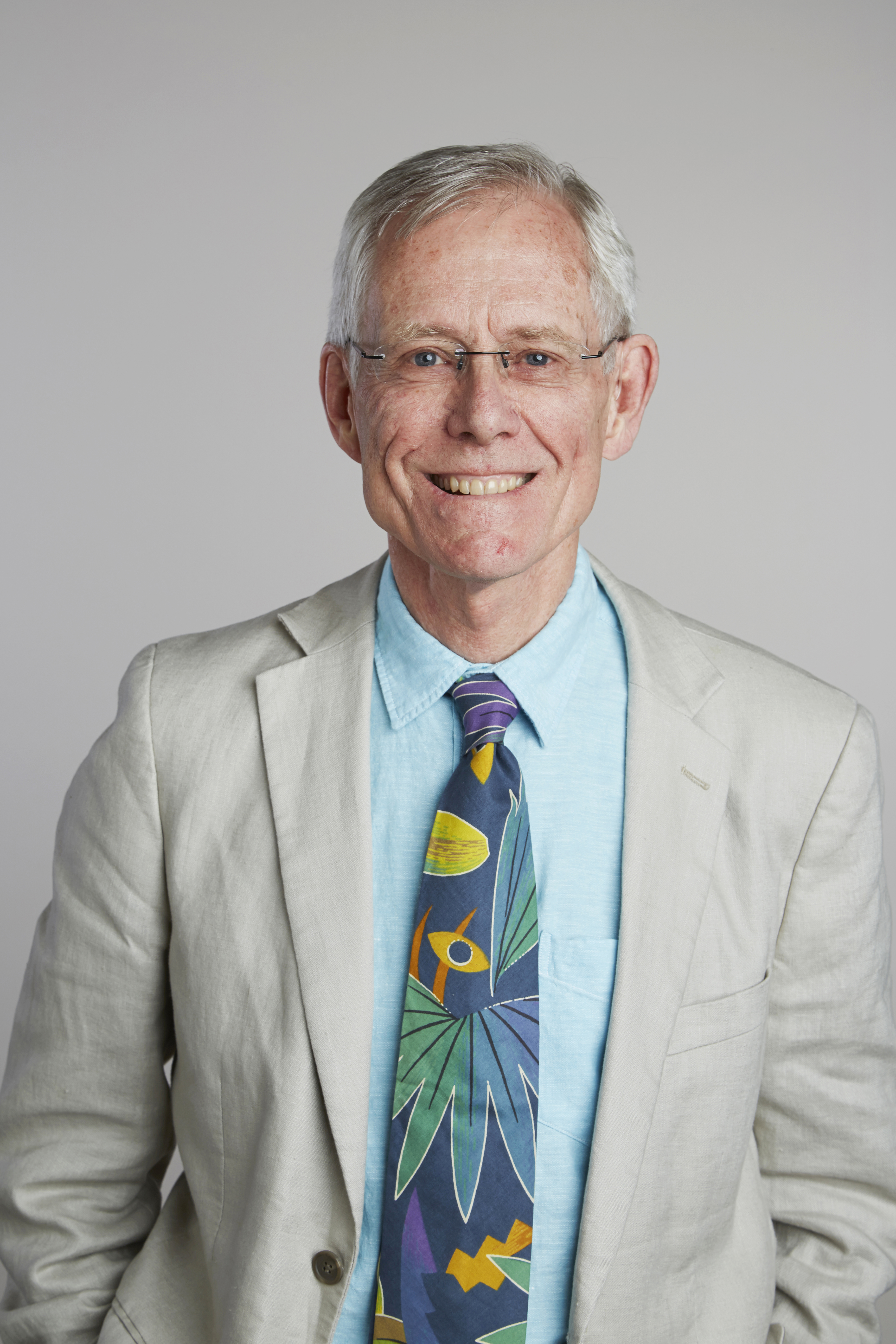 Alan Roberts is a distinguished electrophysiologist, neuroanatomist and student of animal behaviour. His sustained investigation of the circuitry that underlies behaviour in amphibian tadpoles has transformed our understanding of a spinal network generating rhythmic movement and its regulation by sensory and descending inputs. Inspired by Coghill to work with simple networks in an embryonic vertebrate, his detailed cell by cell analysis provides unique insights into the developmental origins of connectivity and its functional significance. Attribution: The Royal Society